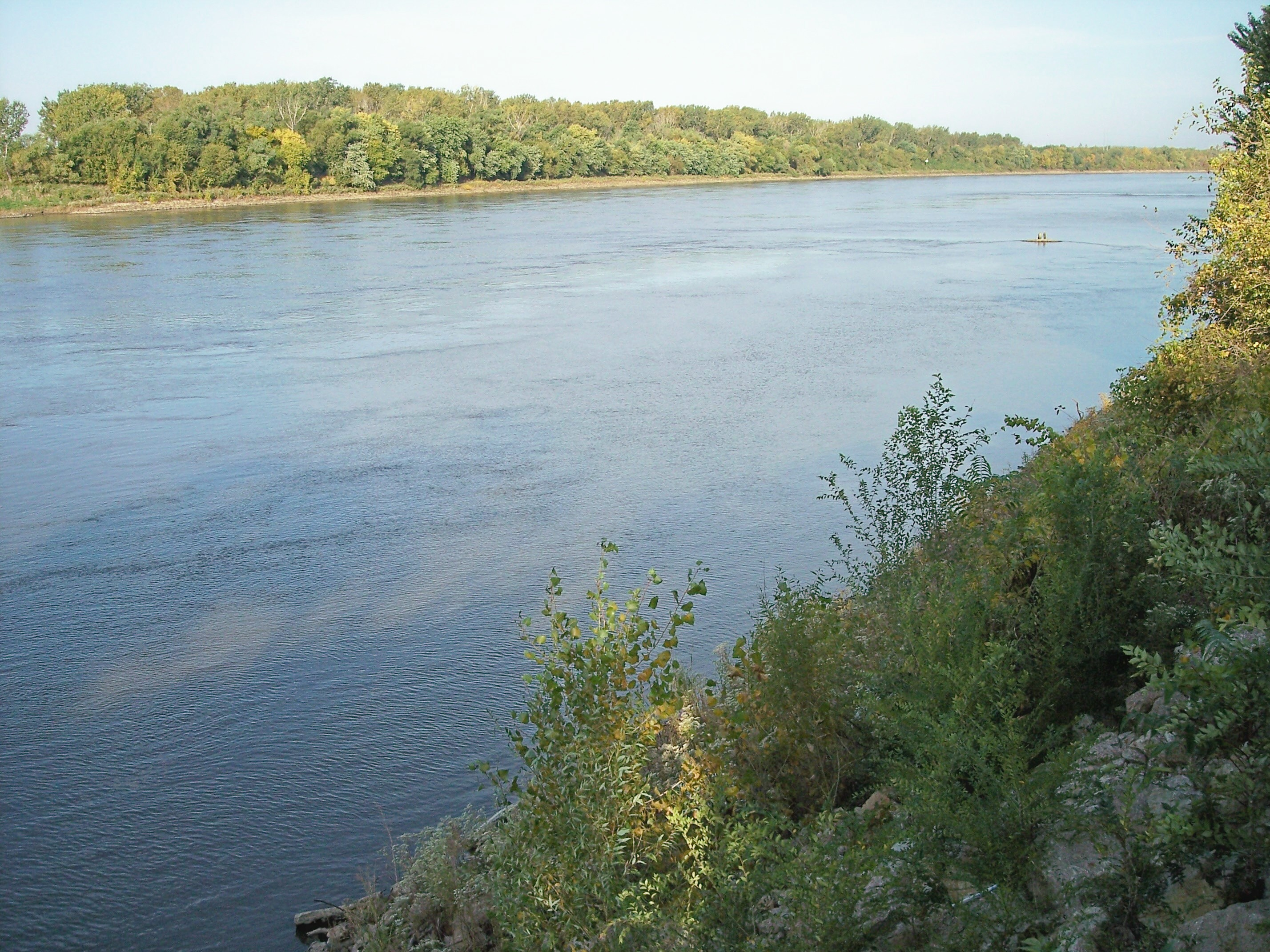 The Missouri River in Saint Joseph, Missouri as viewed from a footpath near Riverfront Park. Doniphan County, Kansas is on the opposite bank.